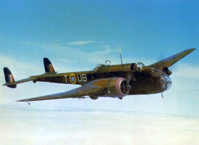 A Handley Page Hampden Mark I, AT137 'UB-T', of No. 455 Squadron RAAF based at Leuchars, Fife, Scotland (UK), in flight above clouds, May 1942.